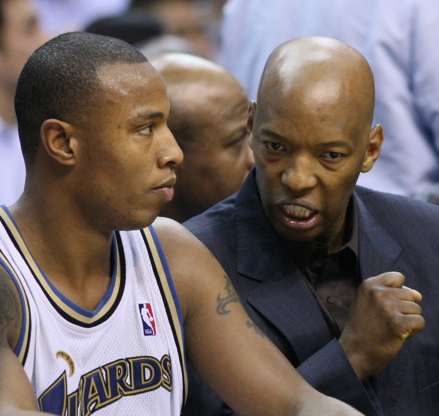 Washington Wizards v/s Cleveland Cavaliers November 18, 2009 at Verizon Center in Washington, D.C.